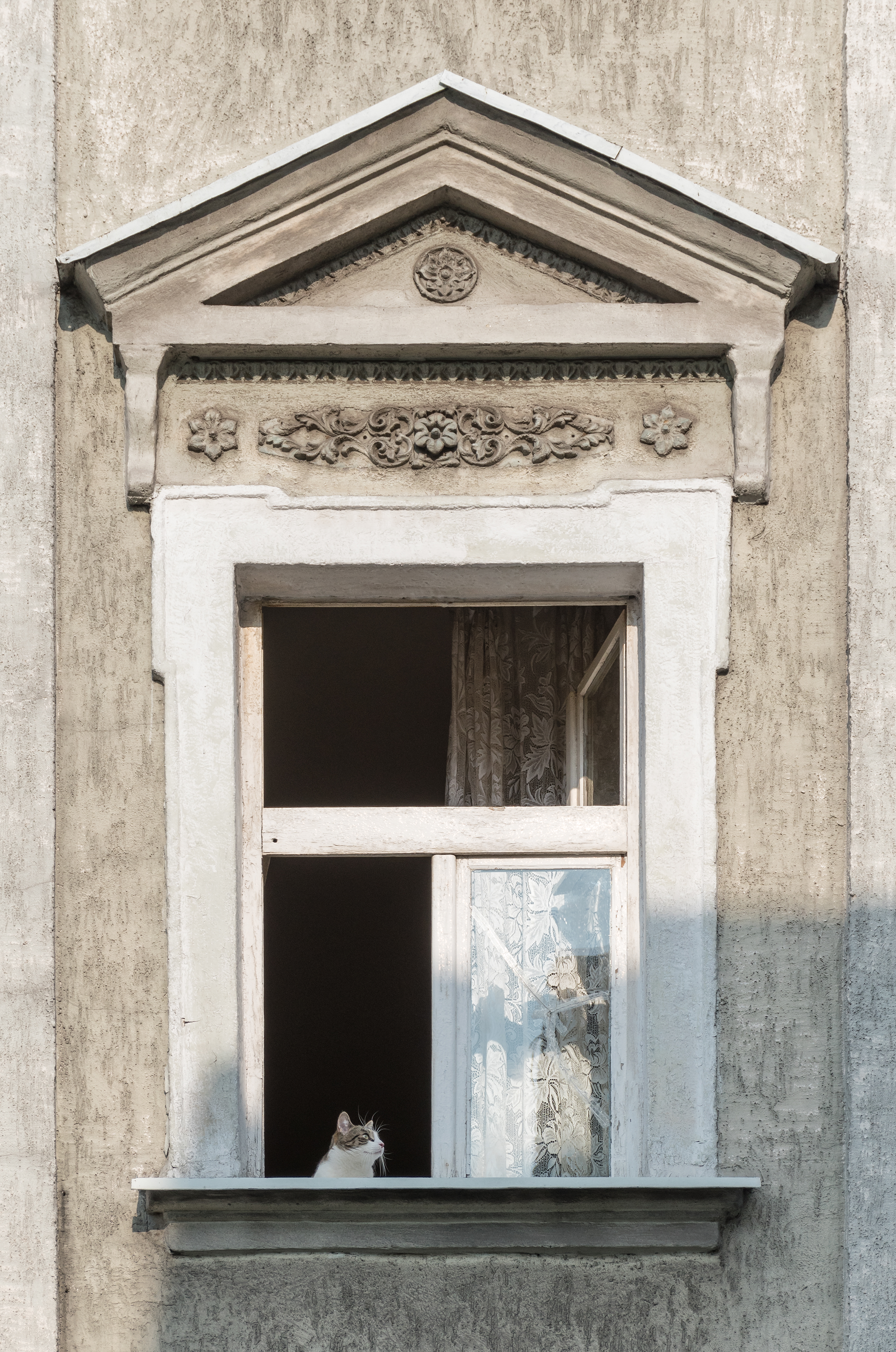 25 Piastów Street in Nowa Ruda